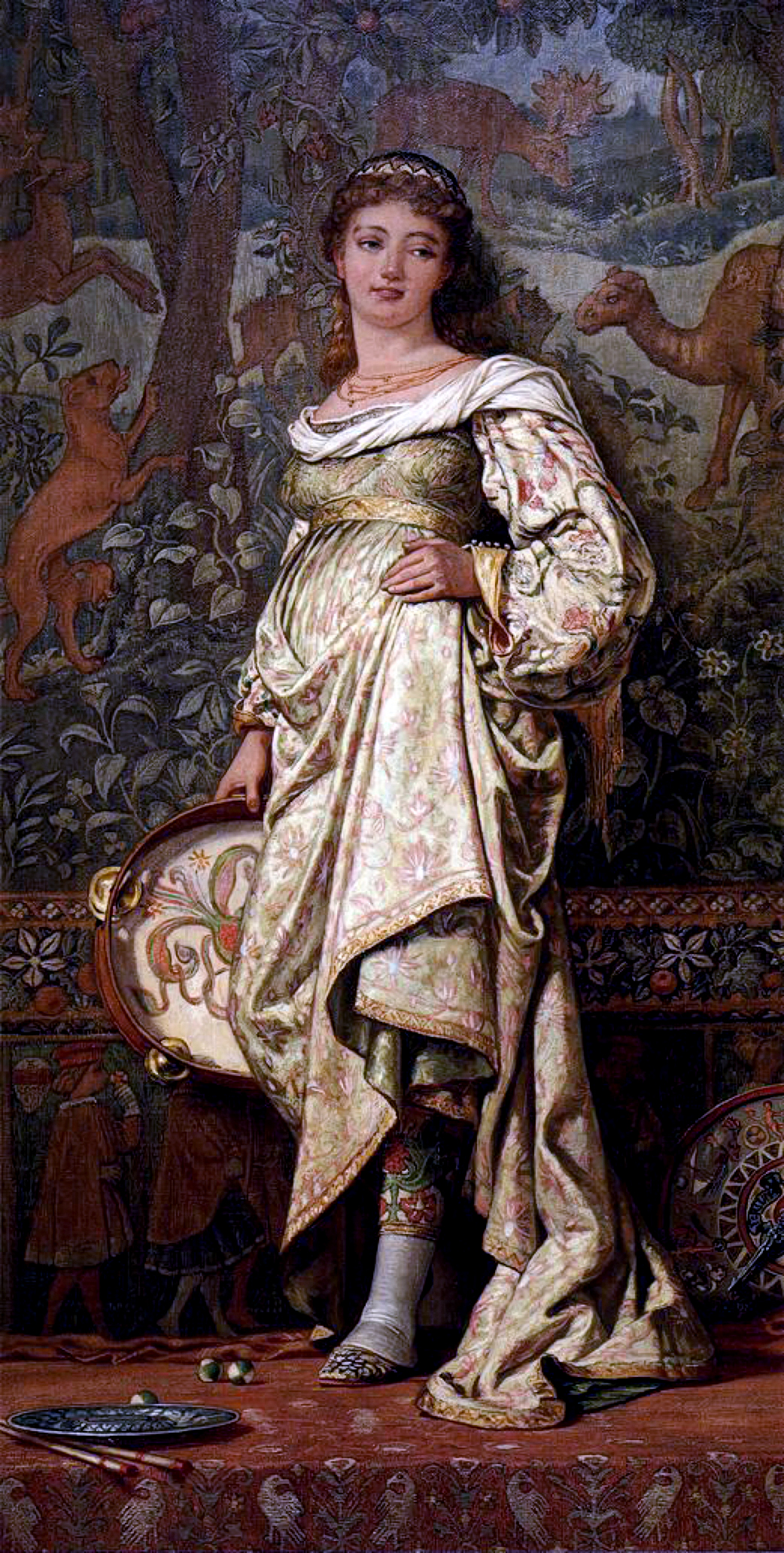 "Dancing Girl," oil on canvas, by the American artist Elihu Vedder. Courtesy of Reynolda House Museum of American Art, Winston-Salem, North Carolina